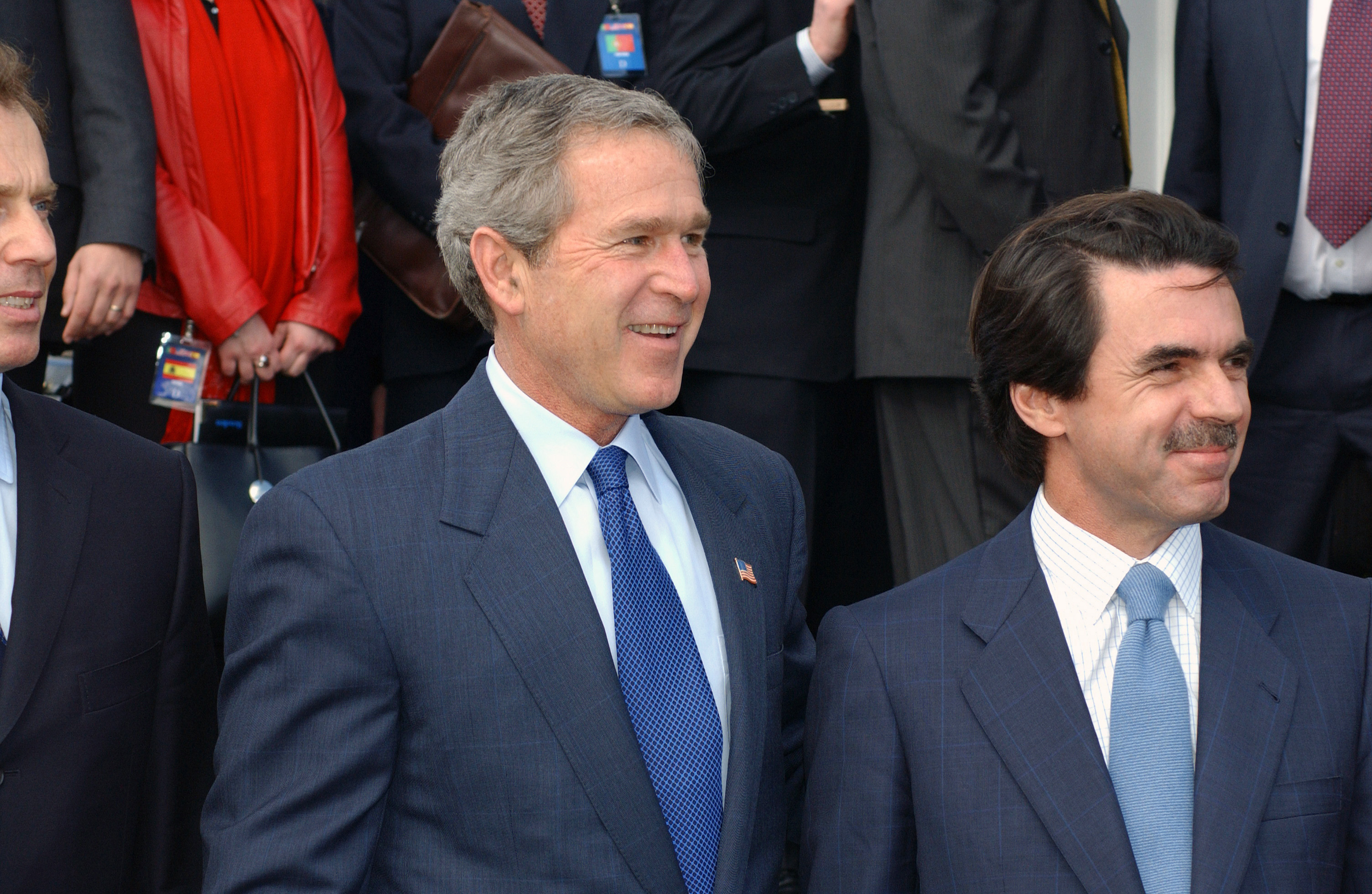 International Leaders meet for a one-day emergency summit meeting at Lajes Field, Azores, to discuss the possibilities of war in Iraq. Pictures foreground left-to-right is British Prime Minister Tony Blair, US President George W. Bush and Spanish Prime Minister Jose Maria Aznar. (Released to Public)